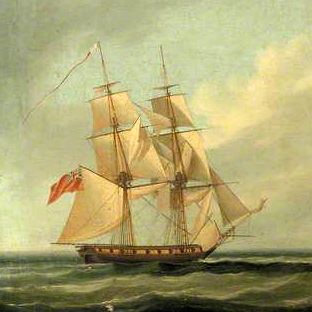 (c) National Maritime Museum; Supplied by The Public Catalogue Foundation